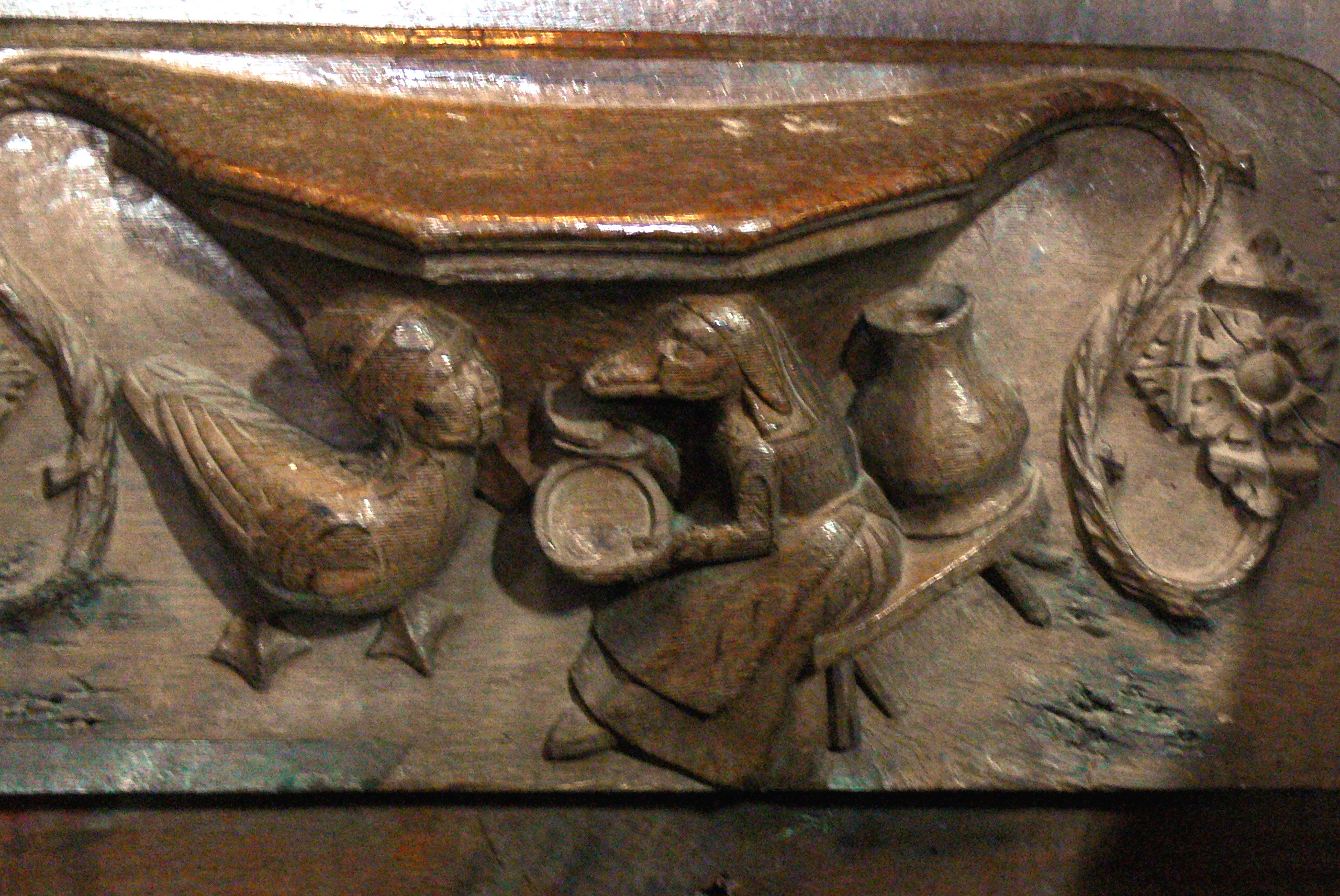 St. David's Cathedral, Wales: 15th-century misericord - A mitred bishop with the body of goose is offered food by a woman with a goose head (probably a satire of concubinage of medieval clergy).